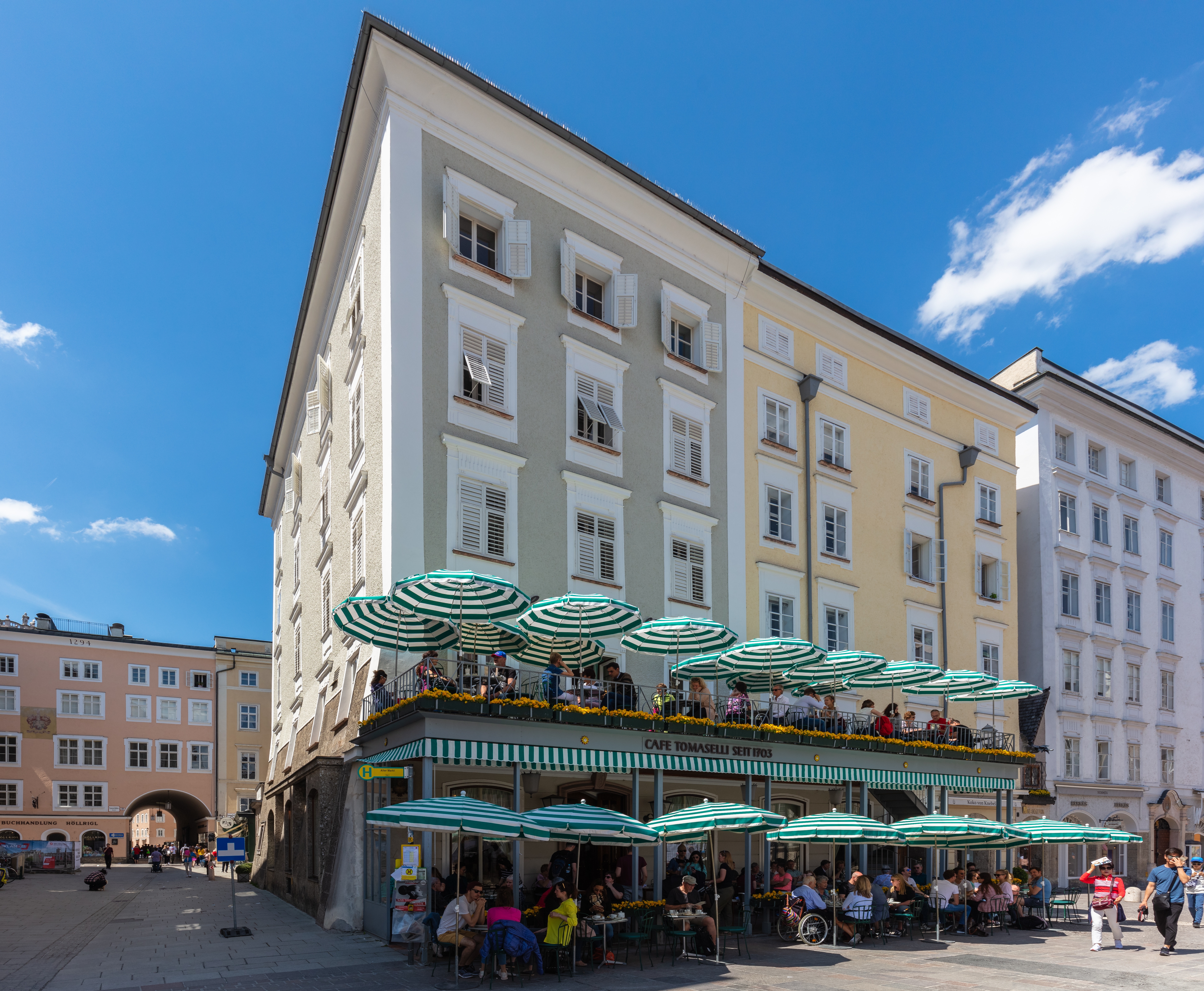 Tomaselli Café, Salzburg, Austria